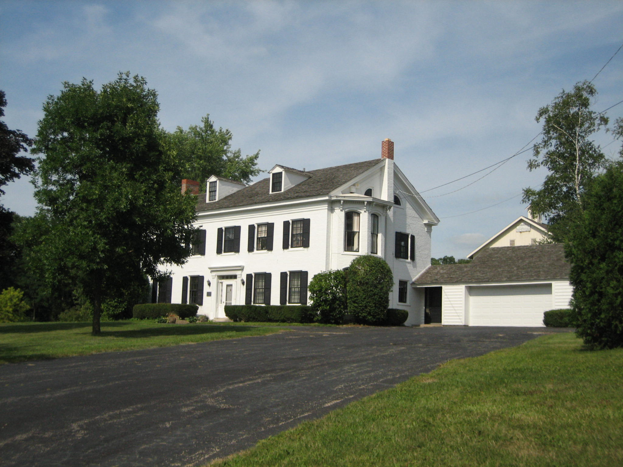 John H. Addams Homestead, Birthplace of Jane Addams (of Hull House fame), Cedarville, Illinois, USA. U.S. National Register of Historic Places